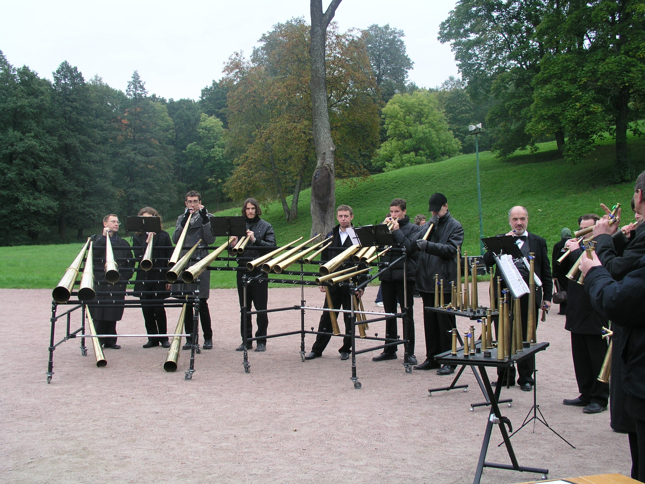 Members of the St. Petersburg "Russian horn band" playing in the Peterhof Park.